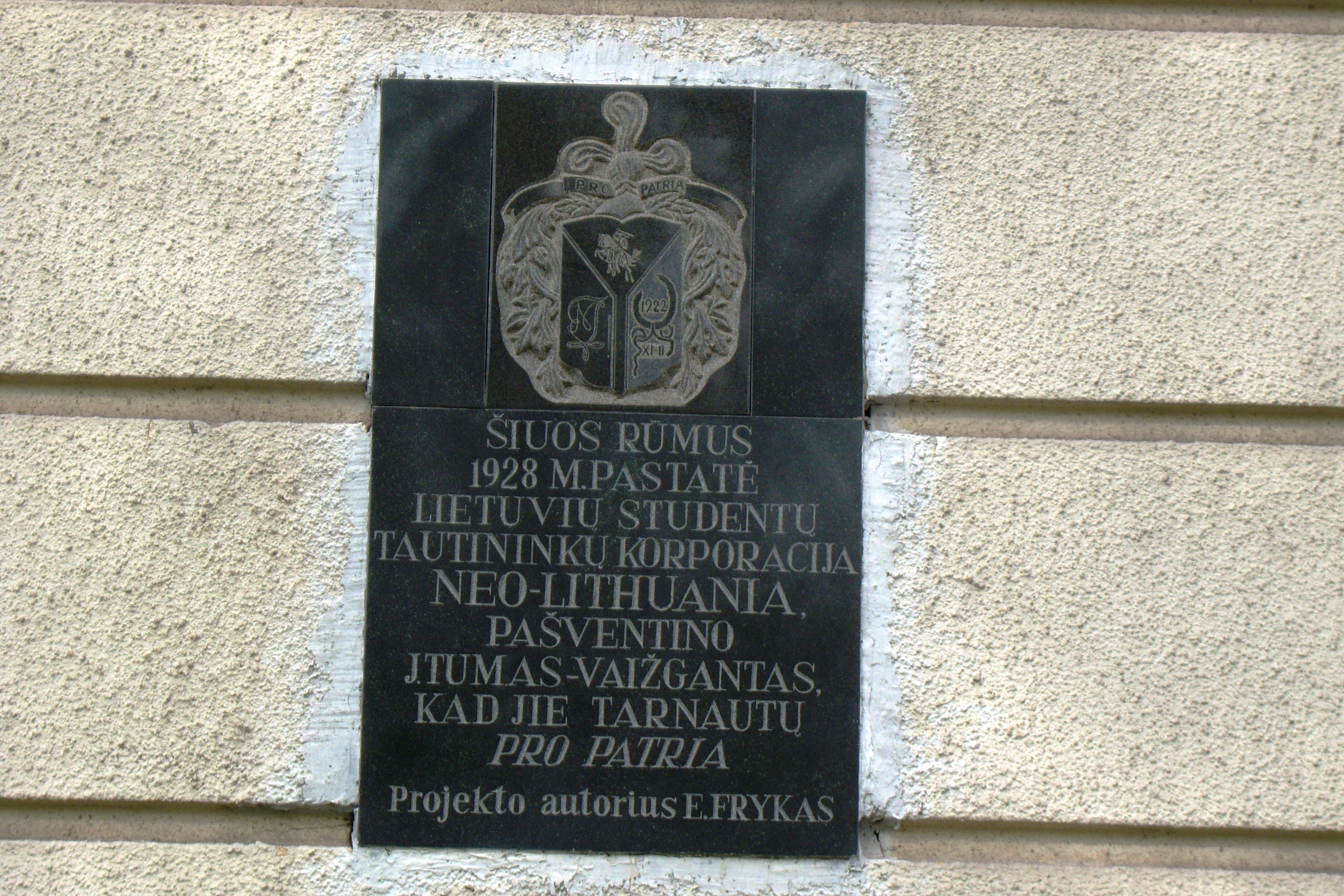 Kaunas Chamber of Children and Schoolchildren Leisure. Commemorative plaque. Lithuania Kategorija:Kauno istorija Kategorija:Kauno statiniai